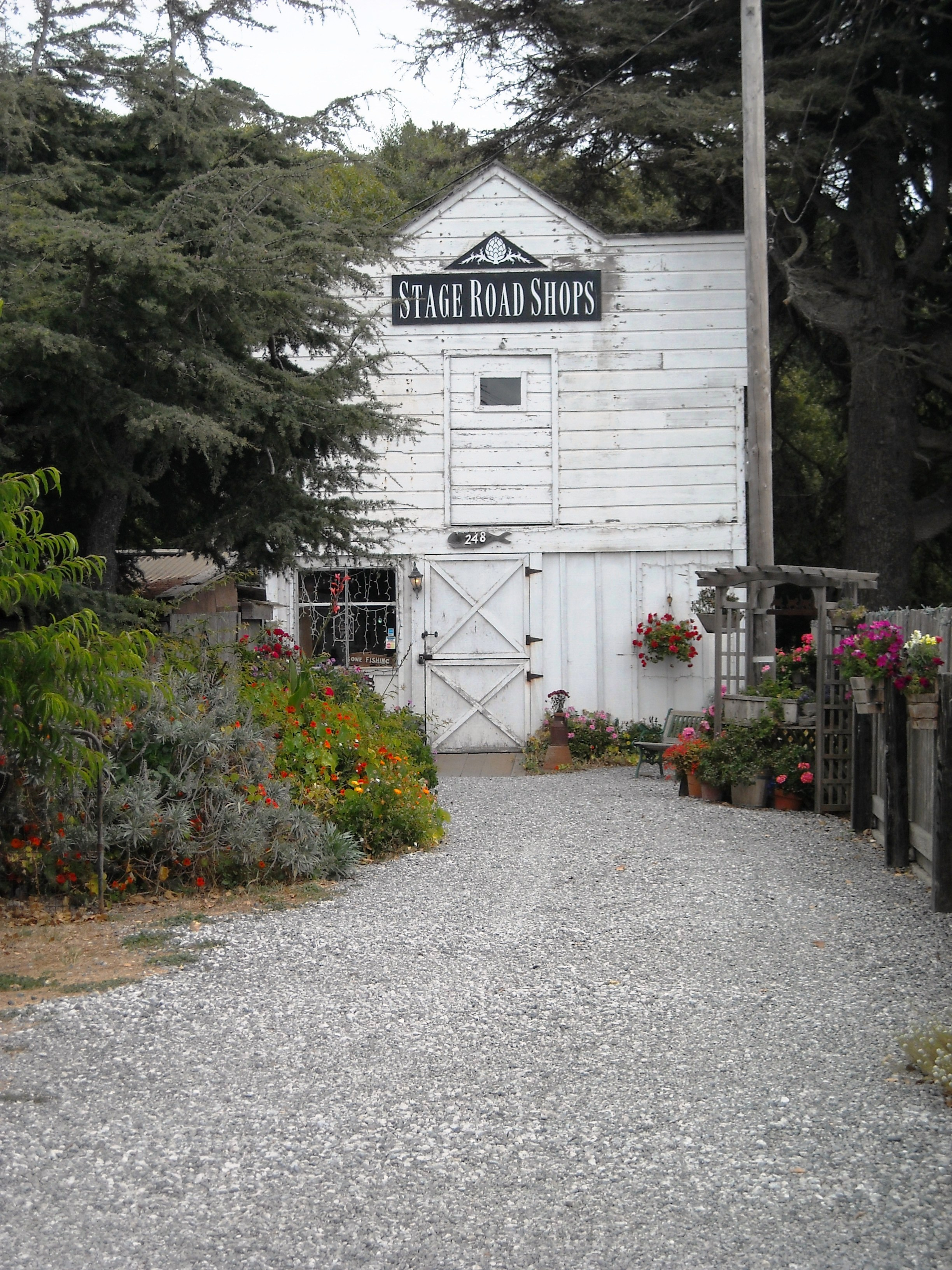 Pescadero, California